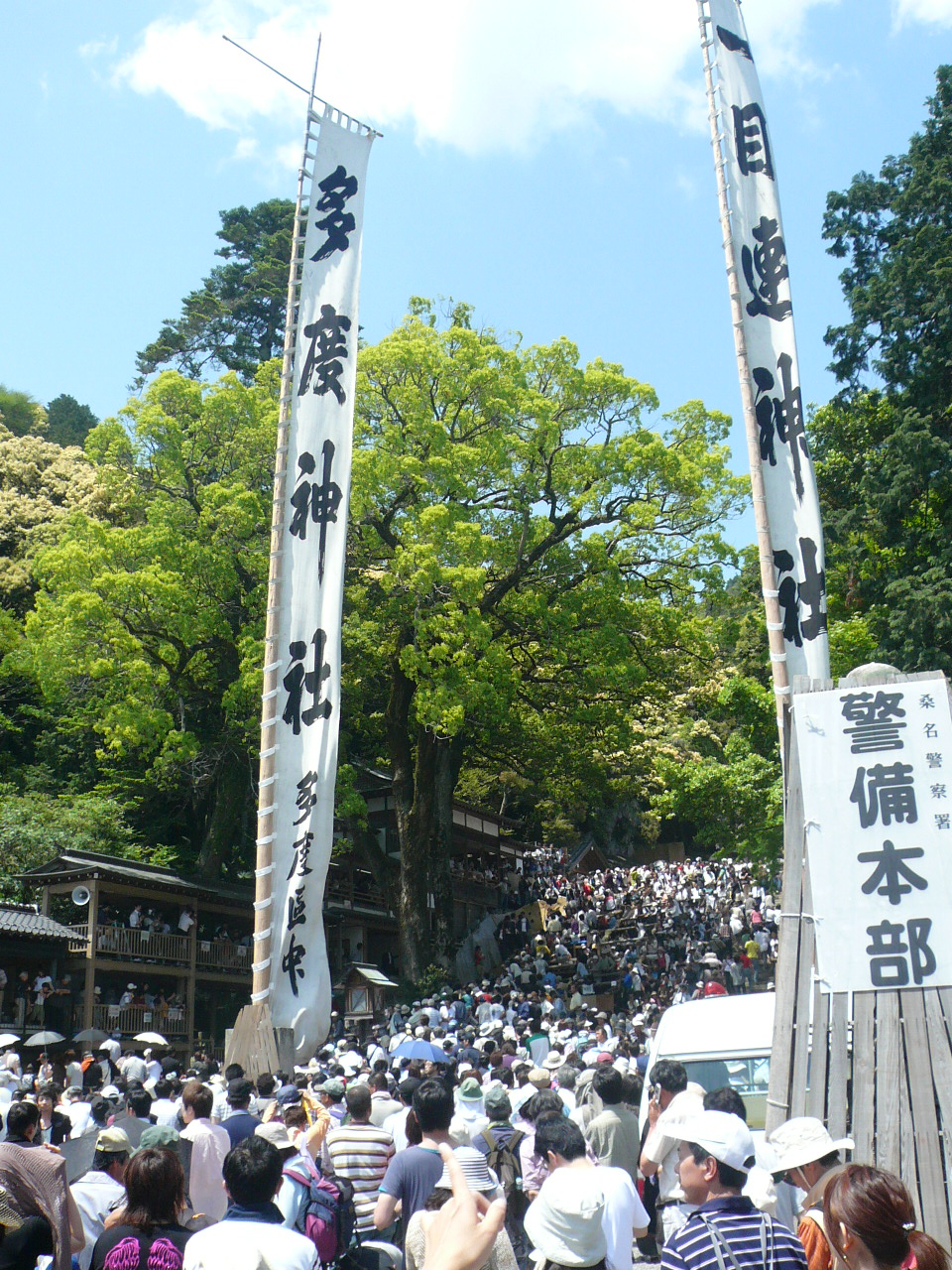 A picture of Tado Shrine in Kuwana, Mie Prefecture.